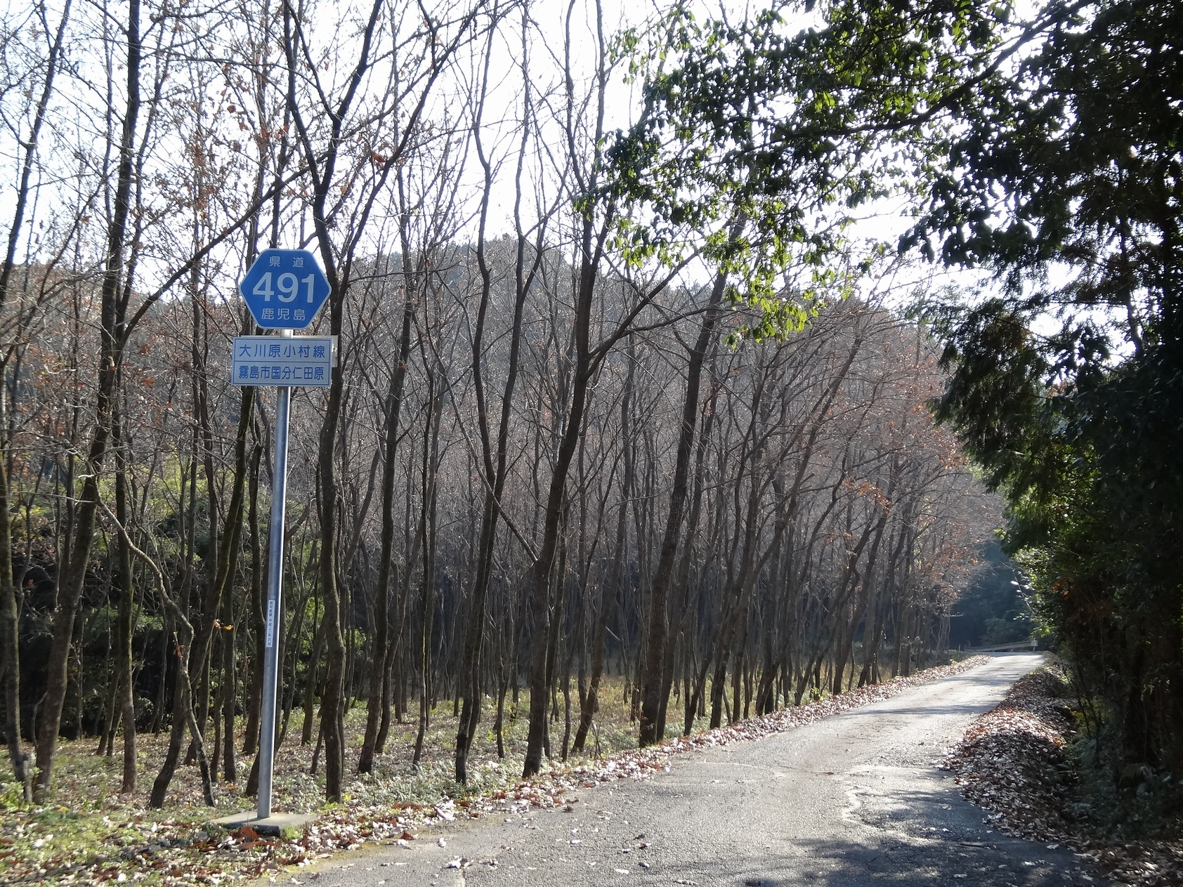 Kagoshima Prefectural Road No.491 Okawara - Komura Line (Kokubu-Kawauchi, Kirishima City, Kagoshima, Japan)